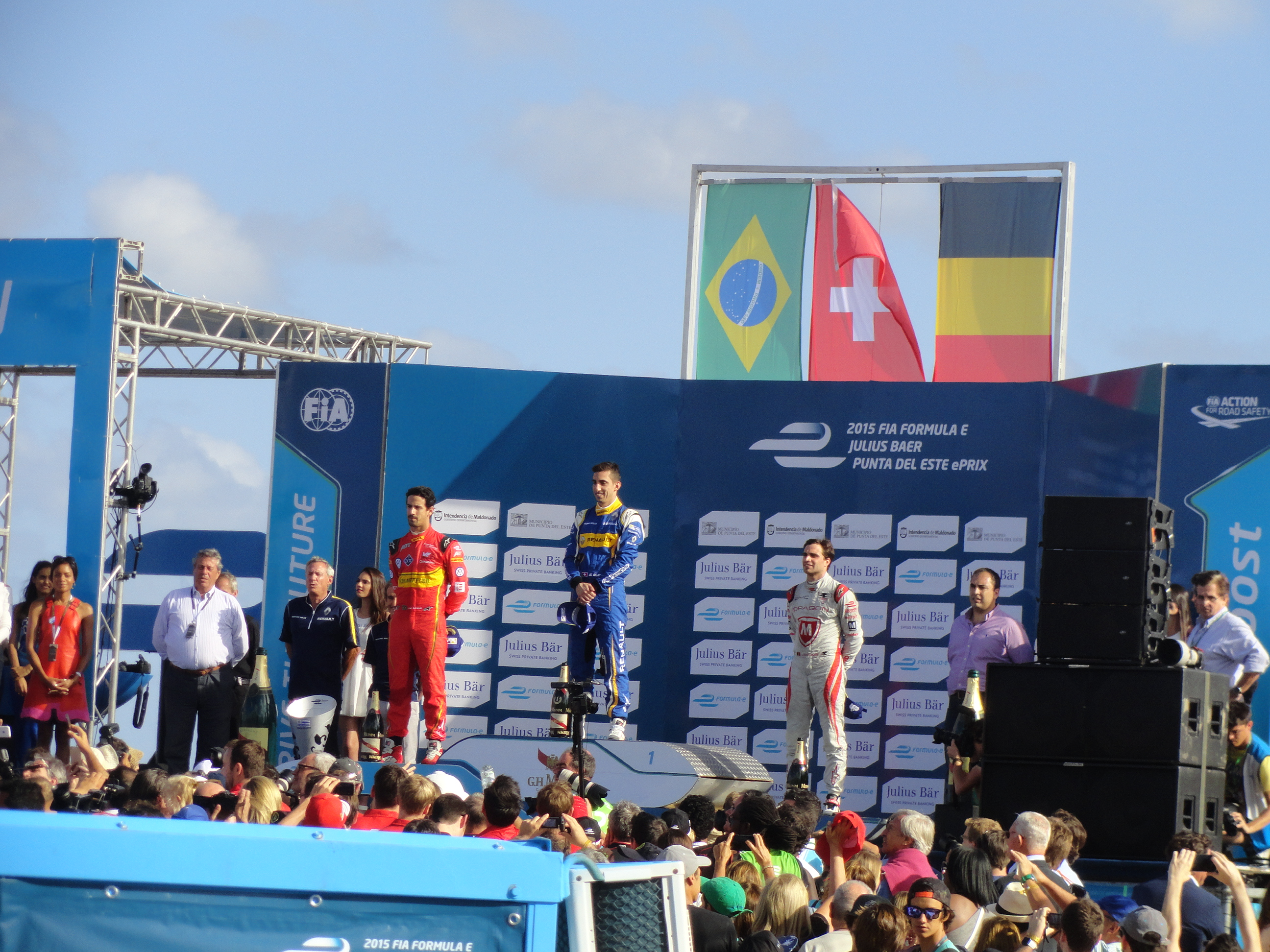 Podium ceremony at the 2015 Punta del Este ePrix